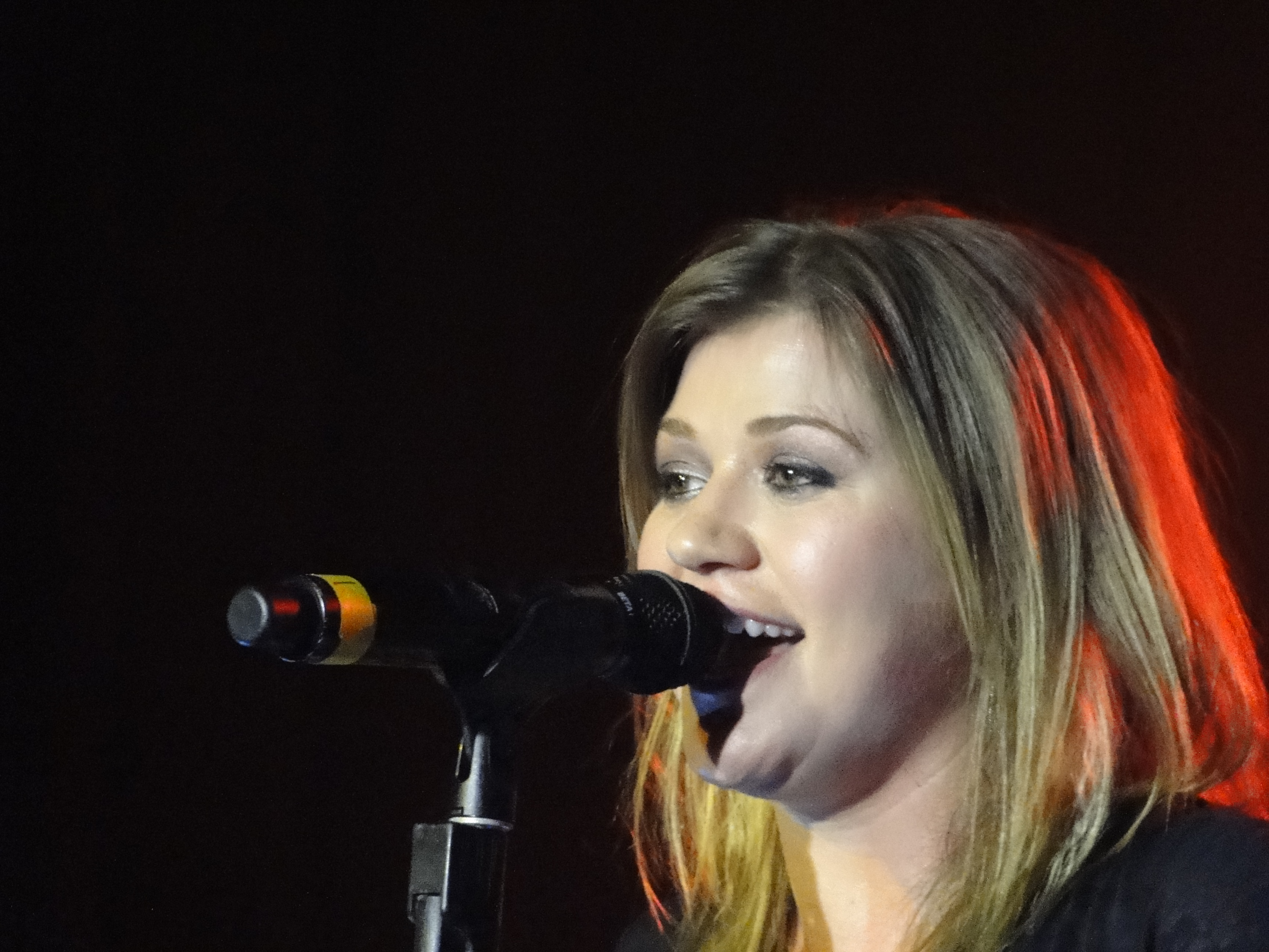 Clarkson performing on tour 2010